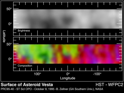 Maps of 4 Vesta based on Hubble Space Telescope images obtained in November 1994 with a resolution of about 52 km per pixel. The top panel shows brightness differences through a 439 nm filter, with the dark feature "Olbers" centered around 0° longitude and 10° N latitude. The bottom panel is in false-color, correpsonding to spectral (and hence, presumably, composition) differences on the surface. Green colours are thought to represent basaltic lava flows, analogous to the Lunar maria.